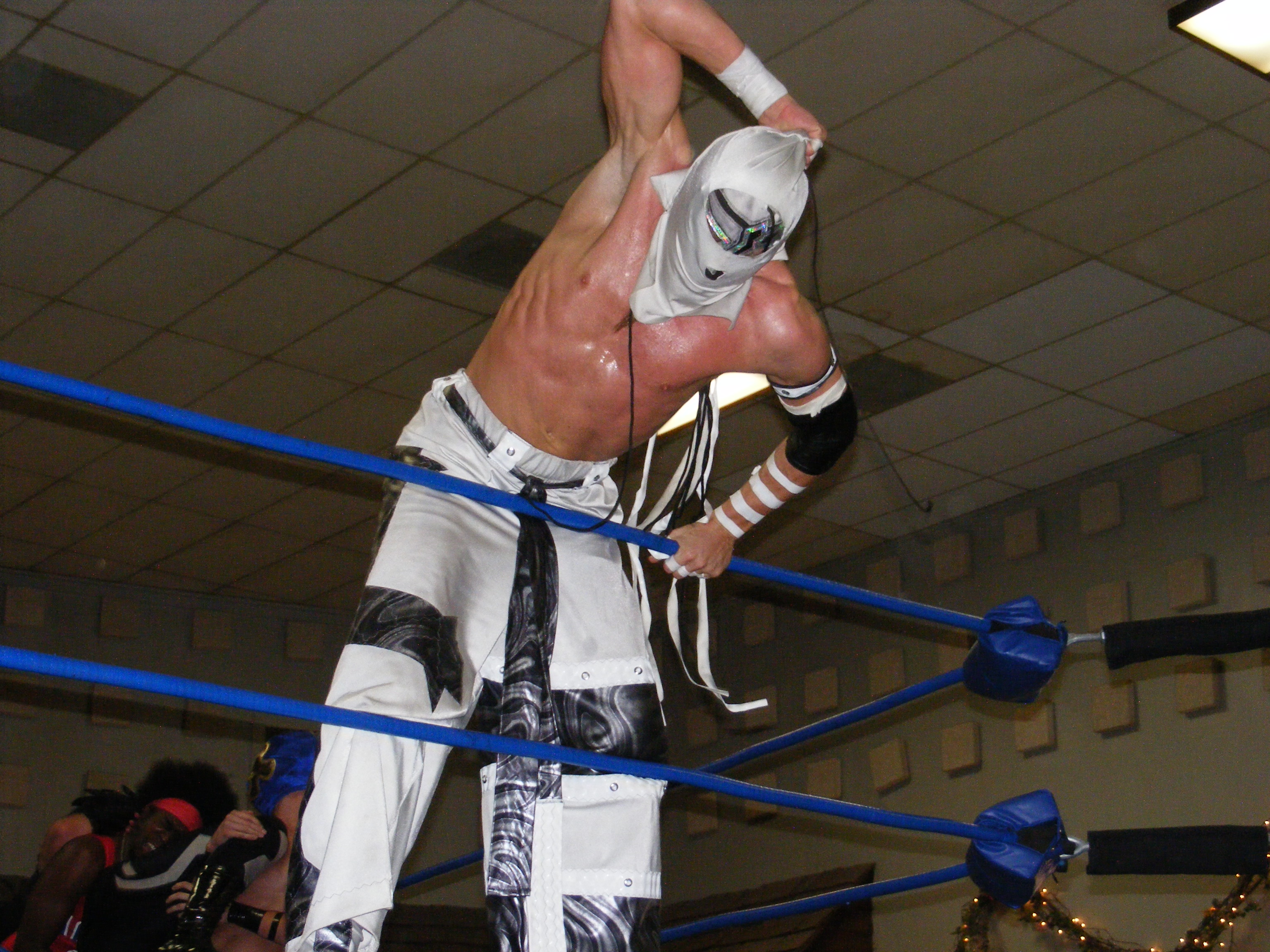 Professional wrestler Delirious in his BDK attire at a Chikara show